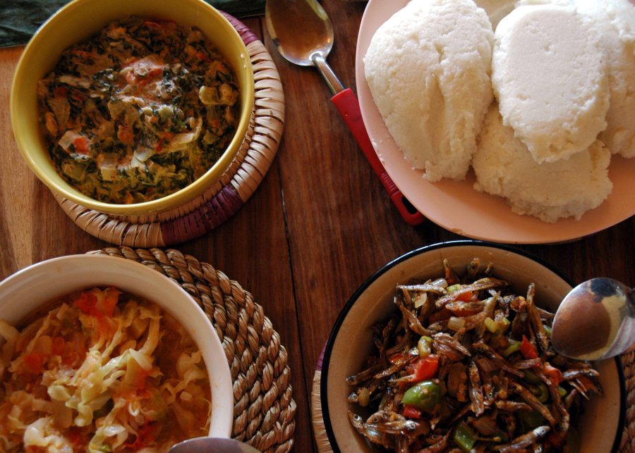 Nsima (maize porridge) with relishes.